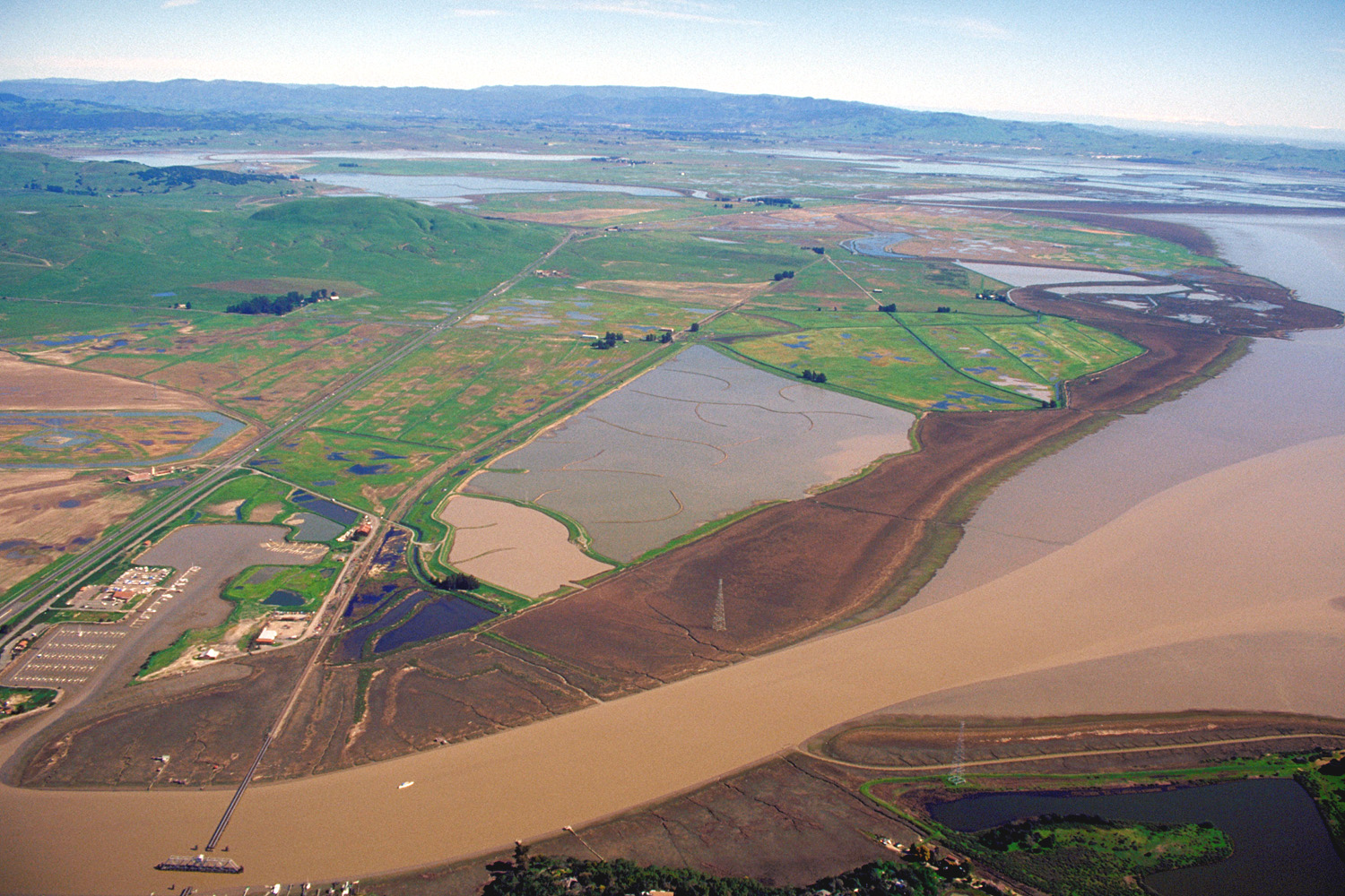 Sears Point in Sonoma County, California, USA. Sears Point is the end of a range of hills or low mountains ending at the northern end of San Pablo Bay and the Napa Sonoma Marsh, which is the flat marshy land across the picture. The Petaluma River flows into the bay at the bottom of the picture. Coordinates: 38°9′3.46″N 122°27′8.99″W / 38.1509611°N 122.4524972°W